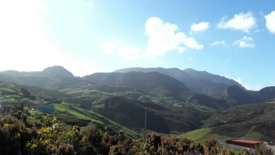 Fnideq , tetouan , Morocco